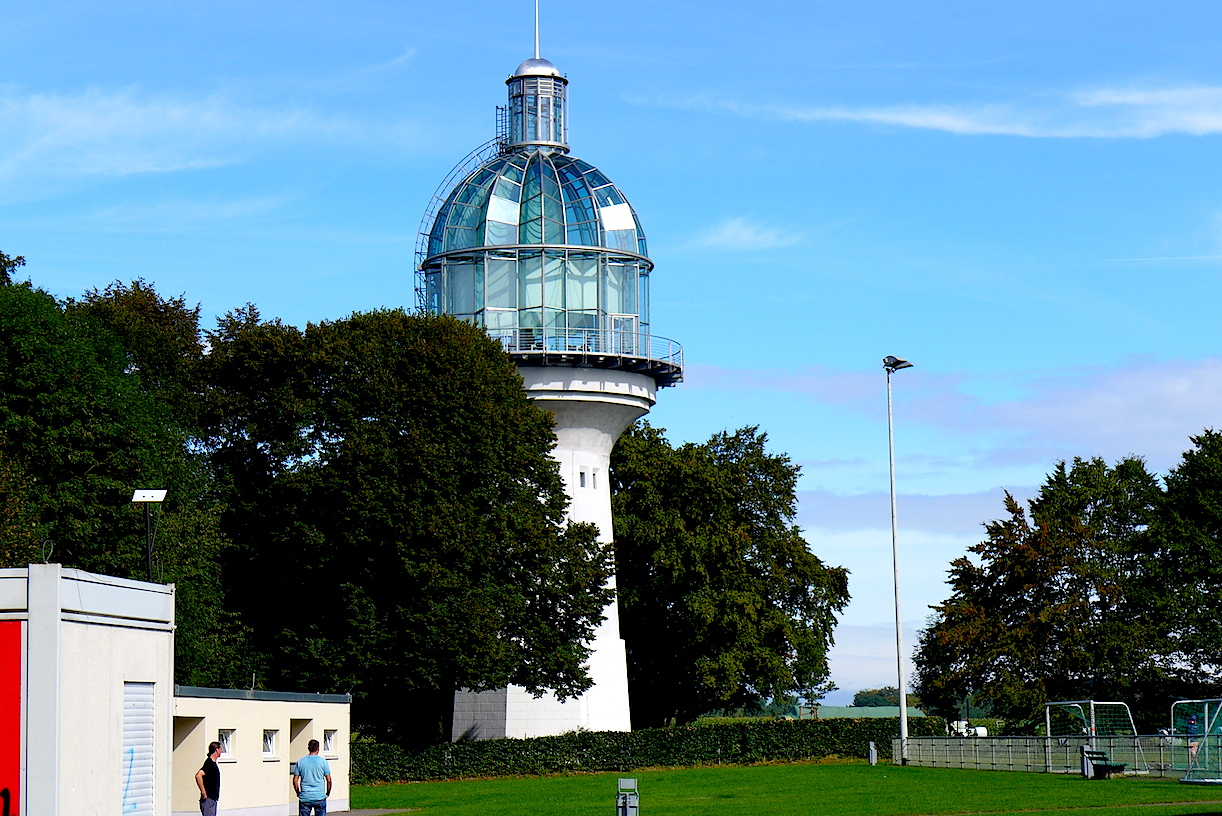 "Blade track" - the tourist marked route around the German city of Solingen (Northern Rhine-Westphalia). First stage: Gräfrath - Kohlfurth, 6,3 km.